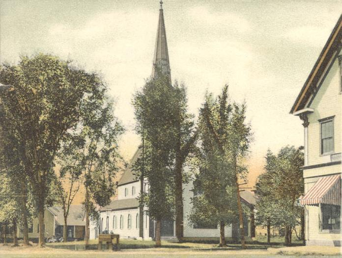 A glimpse of Church Street, Canaan, New Hampshire